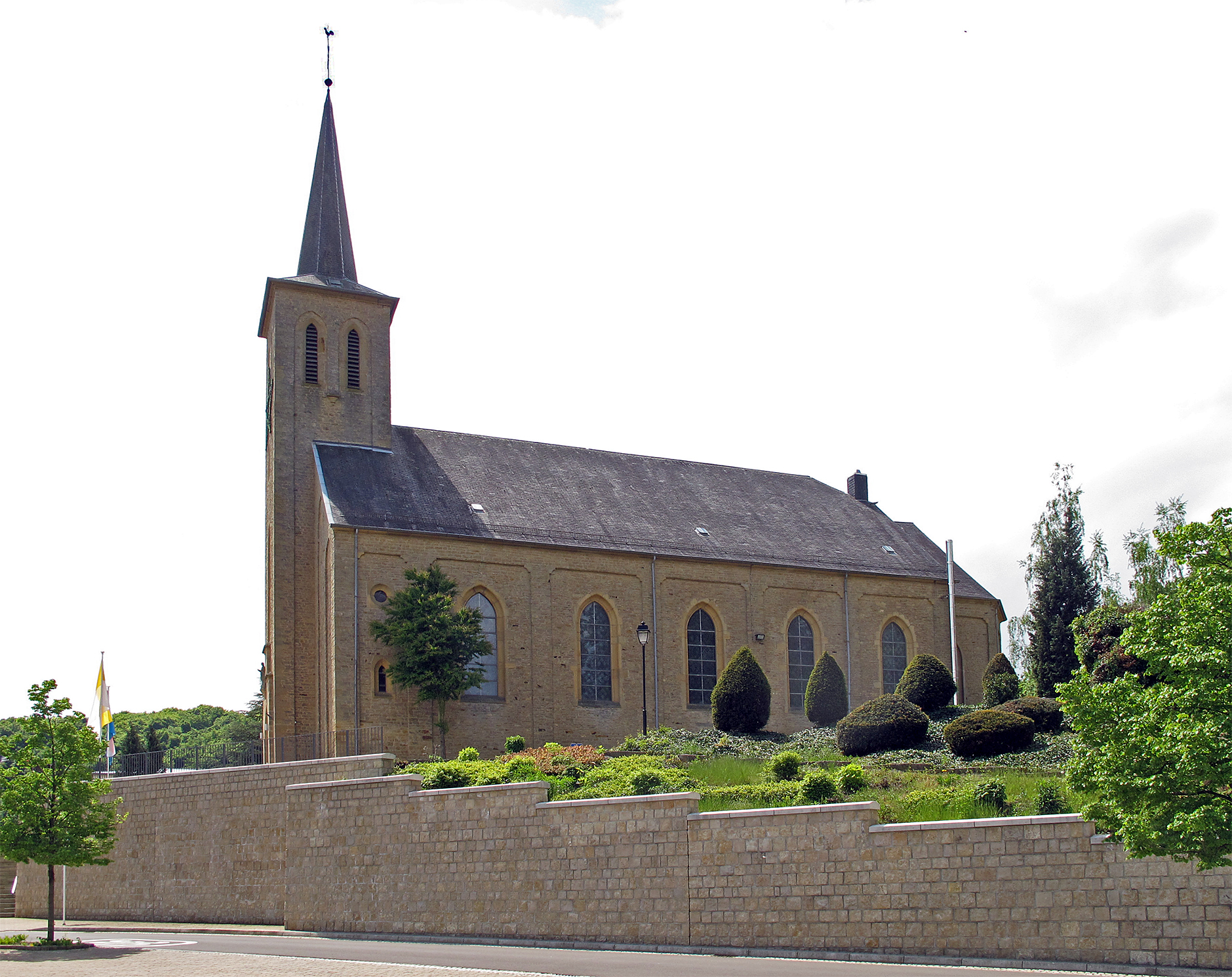 Church of Hostert (Niederanven), Luxembourg